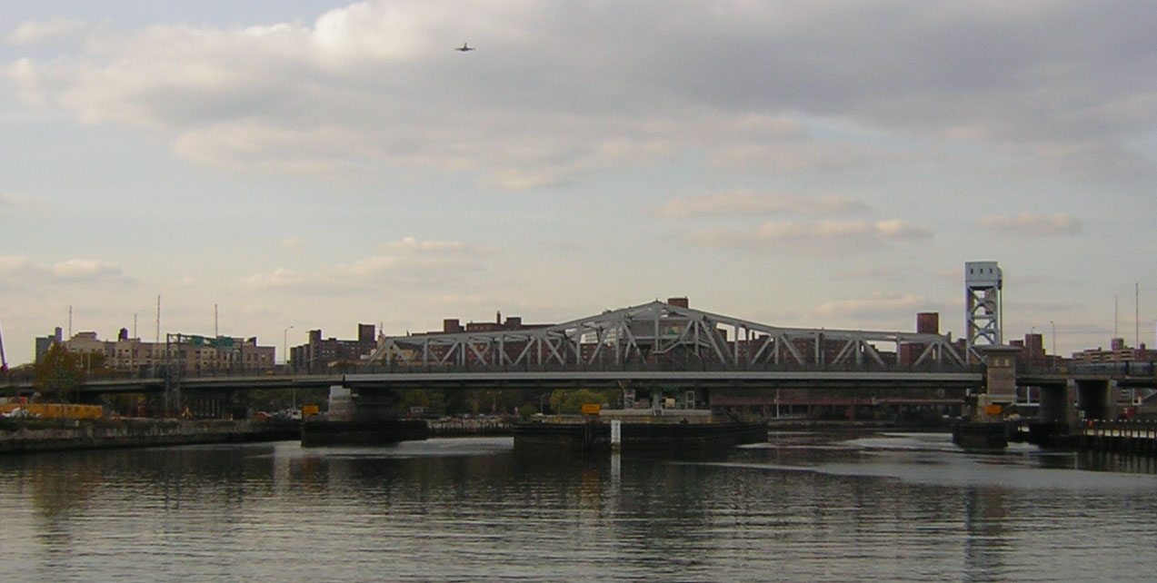 The Third Avenue Bridge from Manhattan to Bronx, over the Harlem River. Picture snapped on a partly cloudy early afternoon from a Circle Line boat approaching from the southeast. The Manhattan lift tower of the Park Avenue Bridge is in the background on the right.